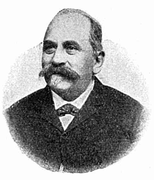 Anastase Stolojan, Romanian politician of the National-Liberal Party, member of the Chamber of Deputies and cabinet minister.